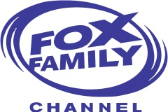 Fox Family Logo 1998-2000